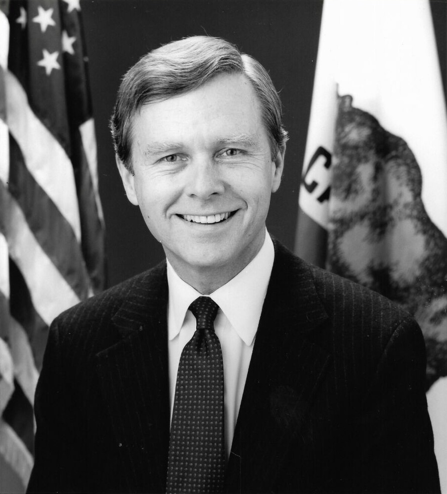 Pete Wilson, U.S. Senator from California, also former Governor of California.